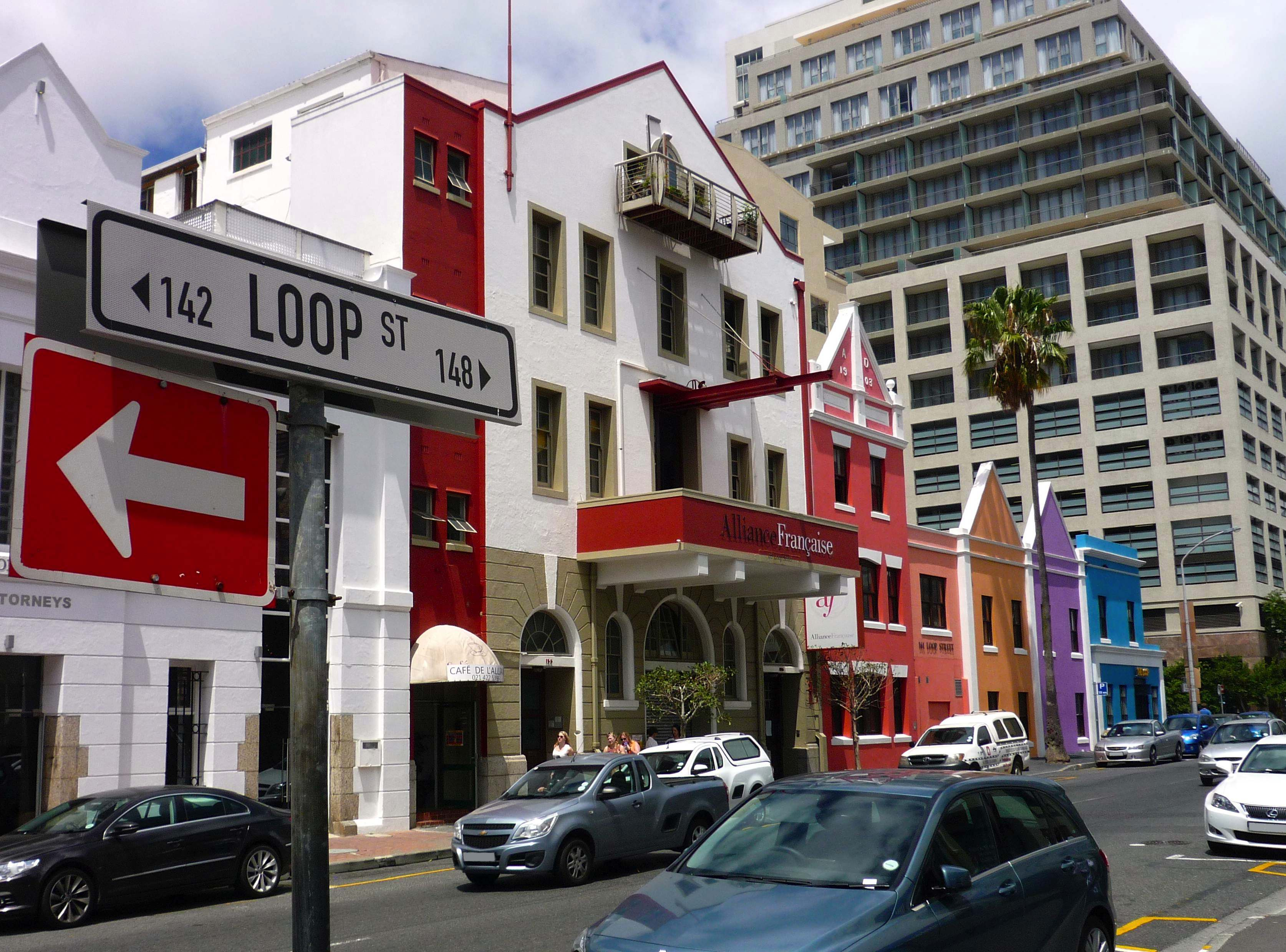 Alliance Française of Cape Town